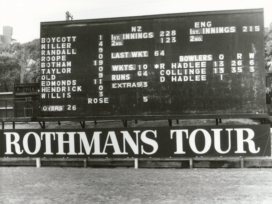 February 1978, Basin Reserve, Wellington AAQT 6539 W3537 box 16 L7/12/6/336